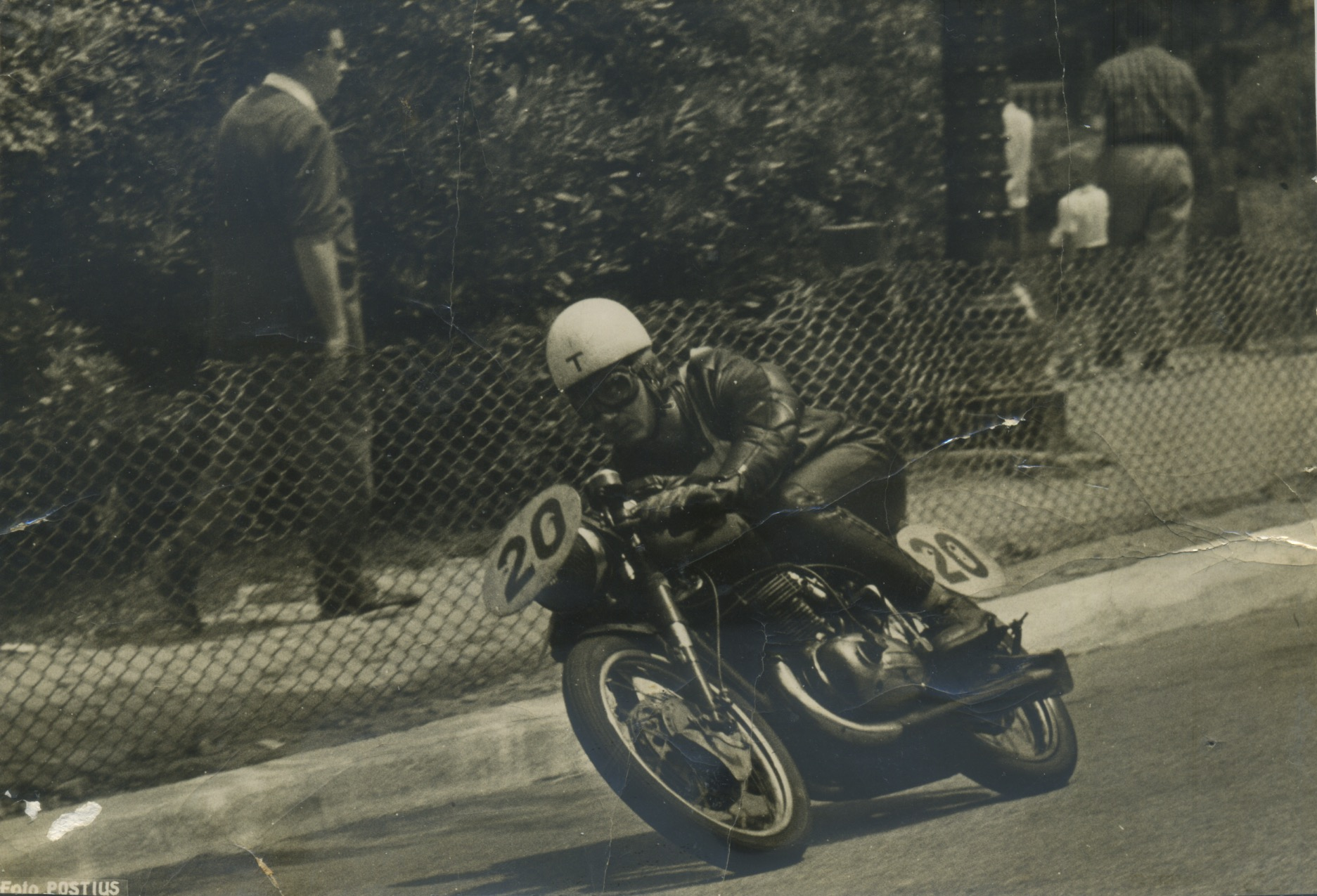 Francesc Tombas on his Derbi 350 during the 1958 24 Hores de Montjuïc